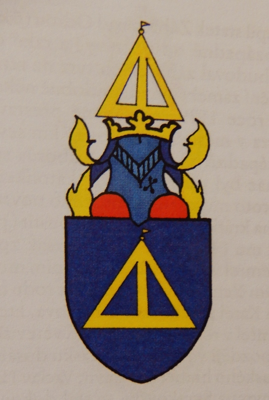 Czech and Moravian knight's family Šárovec of Šárov, Coat-od Arms, 15th to 17th century type